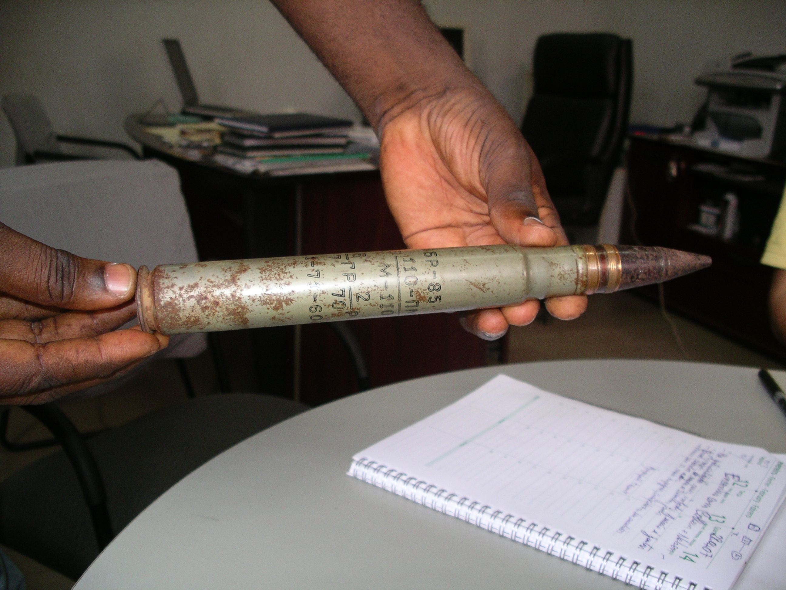 Amidu found this in his car during the war